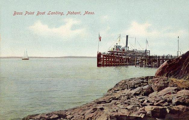 Bass Point Boat Landing, Nahant, MA; from a 1907 postcard.